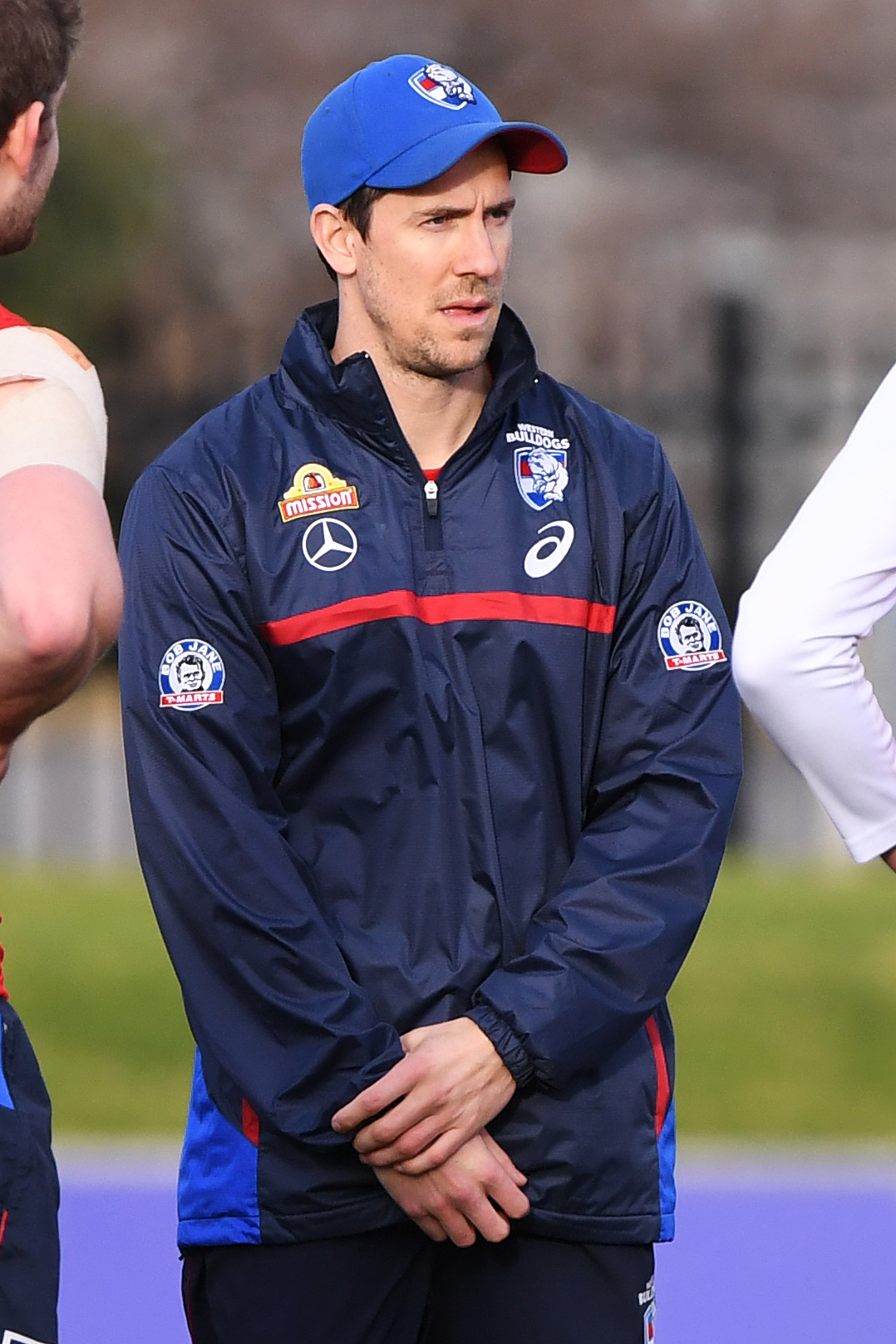 Jordan Russell of the Western Bulldogs during Western Bulldogs training on 7 August 2018 at Whitten Oval in Melbourne, Victoria.